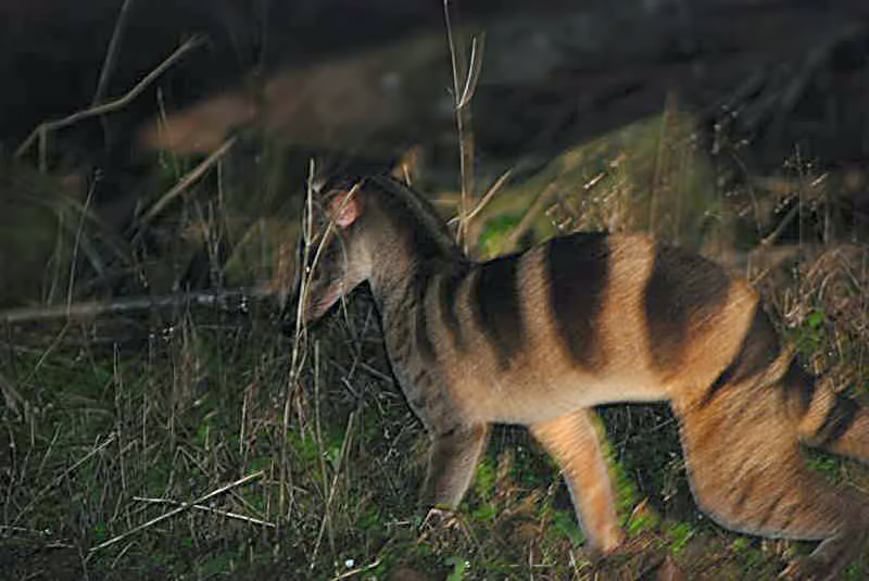 Banded Palm Civet